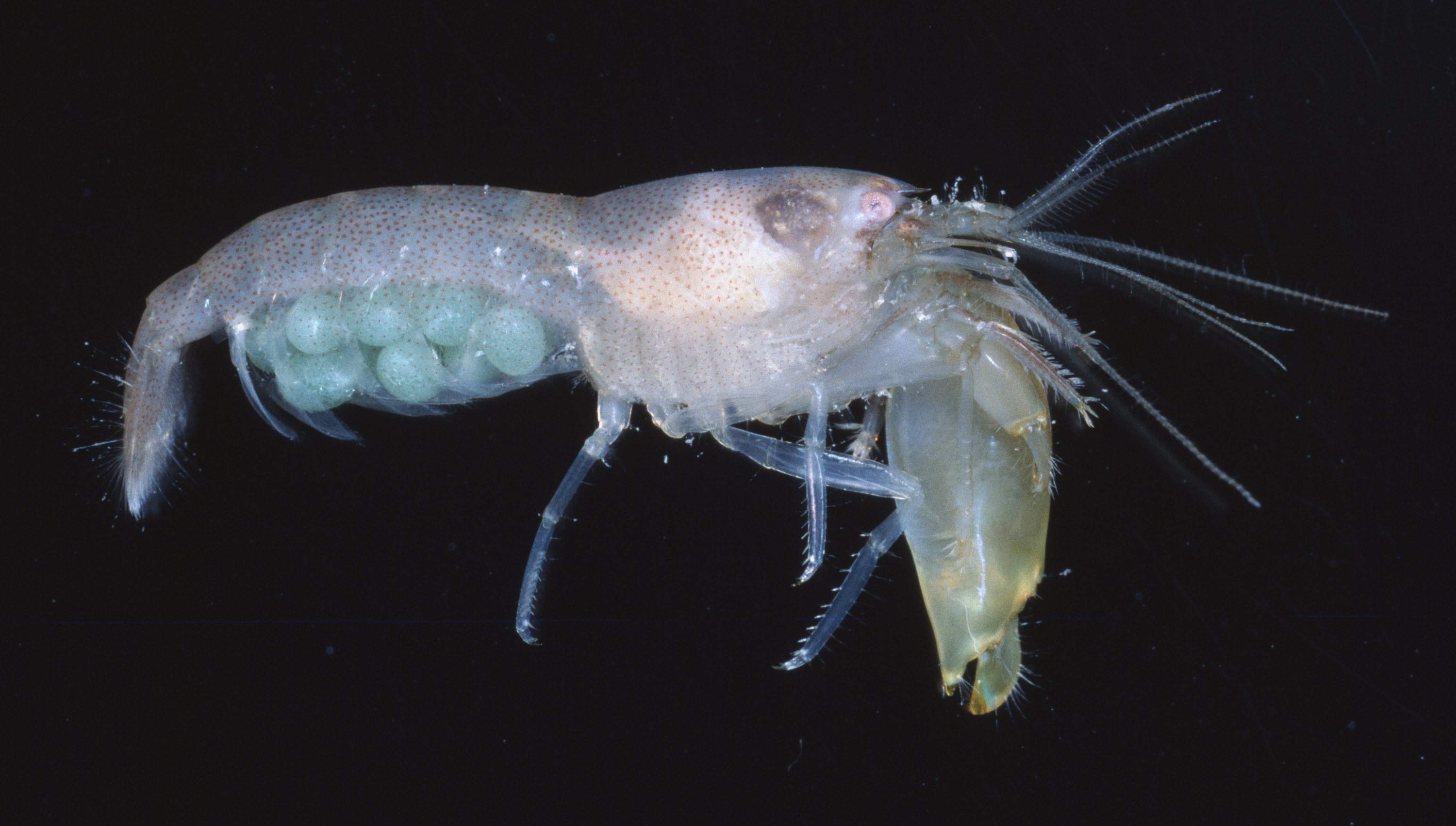 Synalpheus tumidomanus, Fat-handed Snapping Shrimp. Registration no. J 20923. Photographer: Michael Marmach Source: Museums Victoria